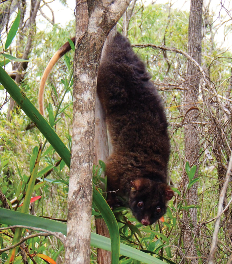 Western ringtail possum (Pesudocheirus occidentalis) at Locke Nature Reserve